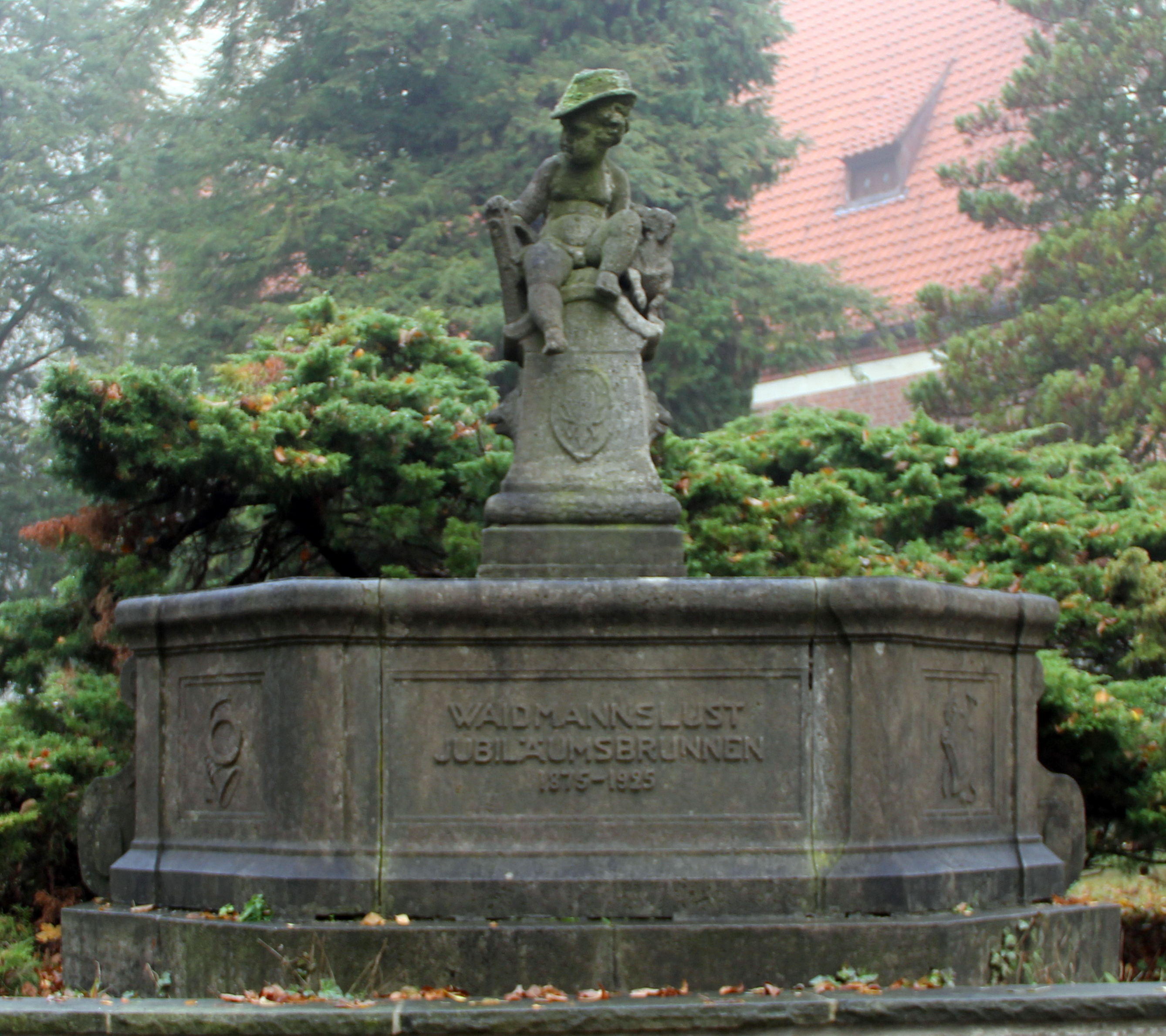 Fountain, Jubiläumsbrunnen, 1925, Bondickstraße 14, Berlin-Waidmannslust, Germany